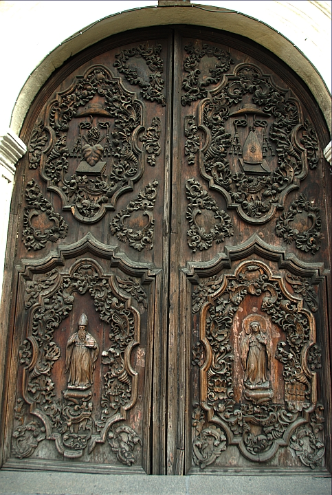 Molave door of San Agustin Church — in Manila, the Philippines.